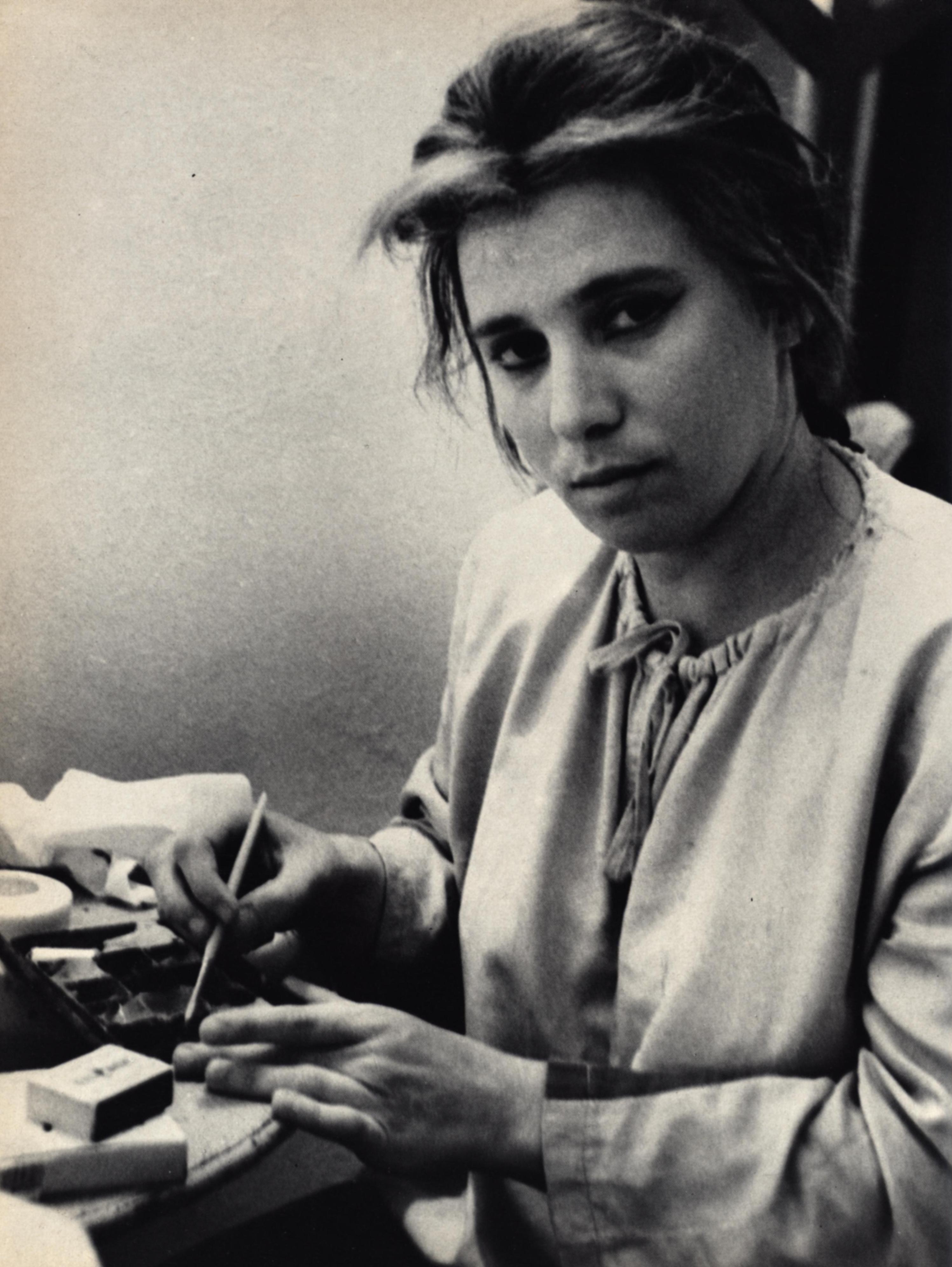 Israeli actress Zaharira Harifai. From: Merom, Peter, Theatre, Tel Aviv: Sifriat Maariv (1965)